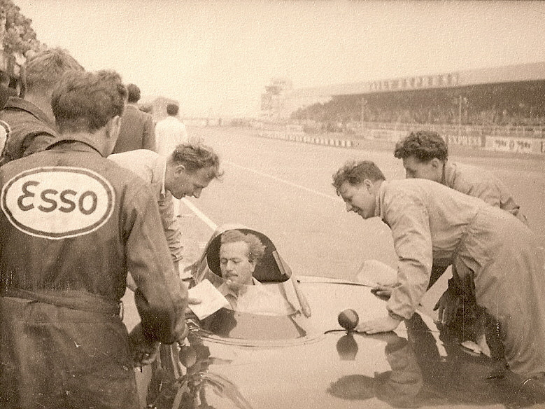 Lotus Cars and Team Lotus founder Colin Chapman sits in the cockpit of one of his own Lotus Eleven racing sports cars, during practice for the 1956 British Grand Prix Formula Two race, Silverstone Circuit, July 1956. He is flanked by engineers Mike Costin (left, with notes) and John Crosthwaite (right, leaning on the car).